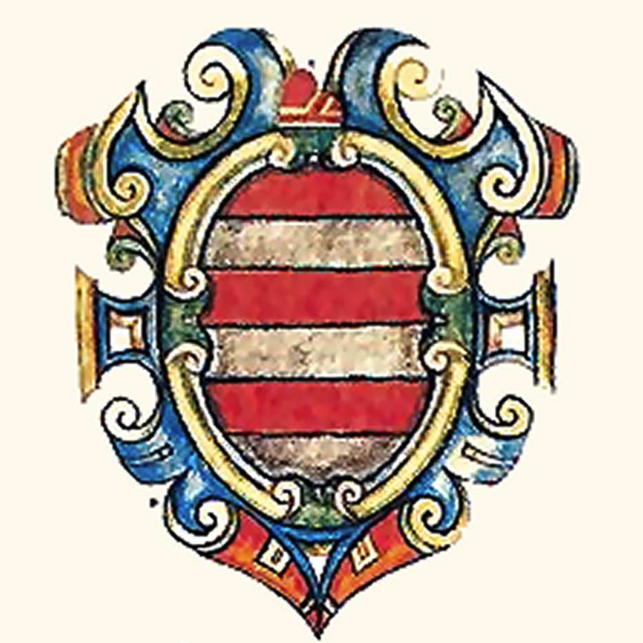 Coat of arms of the Venier noble family.